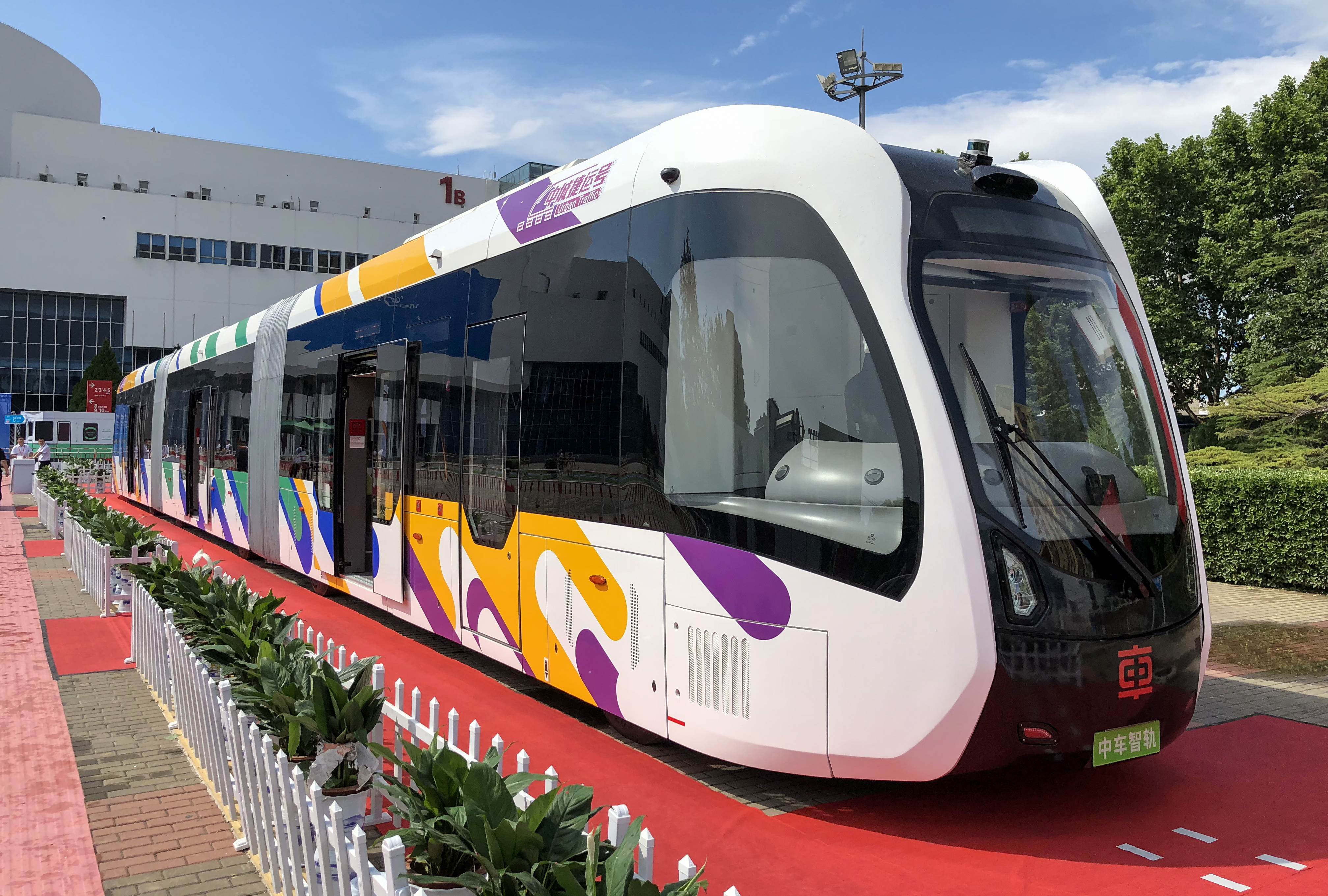 CRRC Zhuzhou Institute developed this rubber-tyred train with 6 axles (2 for each carriage). Some of these trains has already been in experimental operation in Zhuzhou.